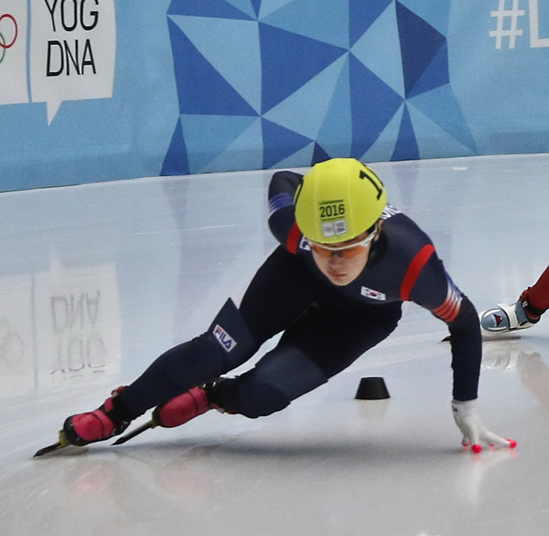 Lillehammer 2016 - Short track 1000m - Women Semifinals - Jiyoo Kim, Suyoun Lee and Yize Zang